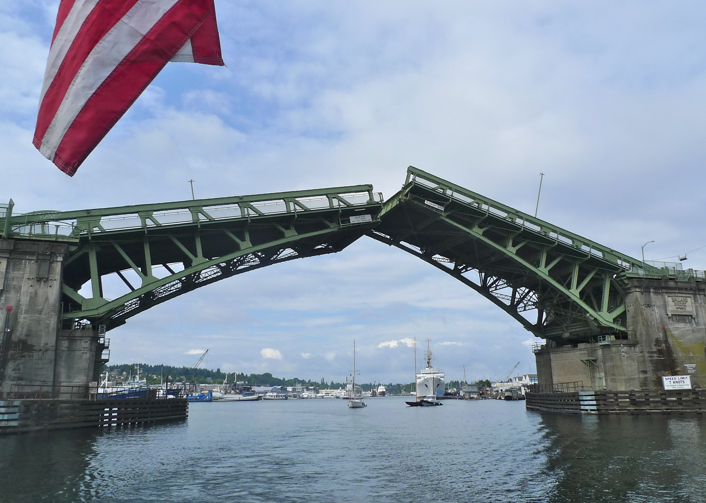 The Ballard Bridge opening (or closing after having opened) to allow a boat to pass underneath. This photo is looking west and shows the bridge's east side.